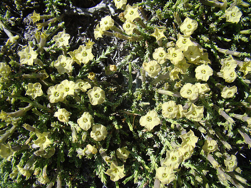 From Rio Negro Province, Argentina. In context at